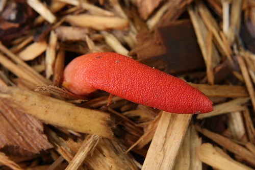 Stinkhorn (Mutinus ravenelii) in Portage, MI.